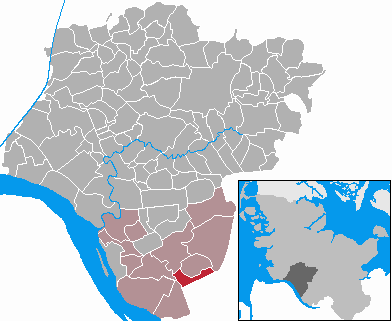 This map shows the area of the municipality Altenmoor in the Kreis (district) Steinburg, Schleswig-Holstein, Germany.